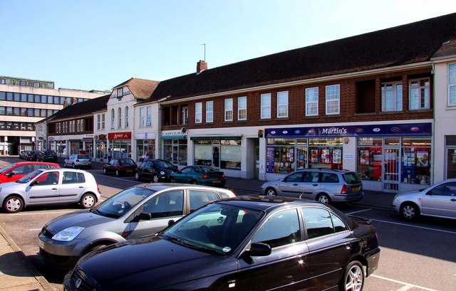 Elms Parade, Botley, Oxfordshire (formerly Berkshire), seen from the west